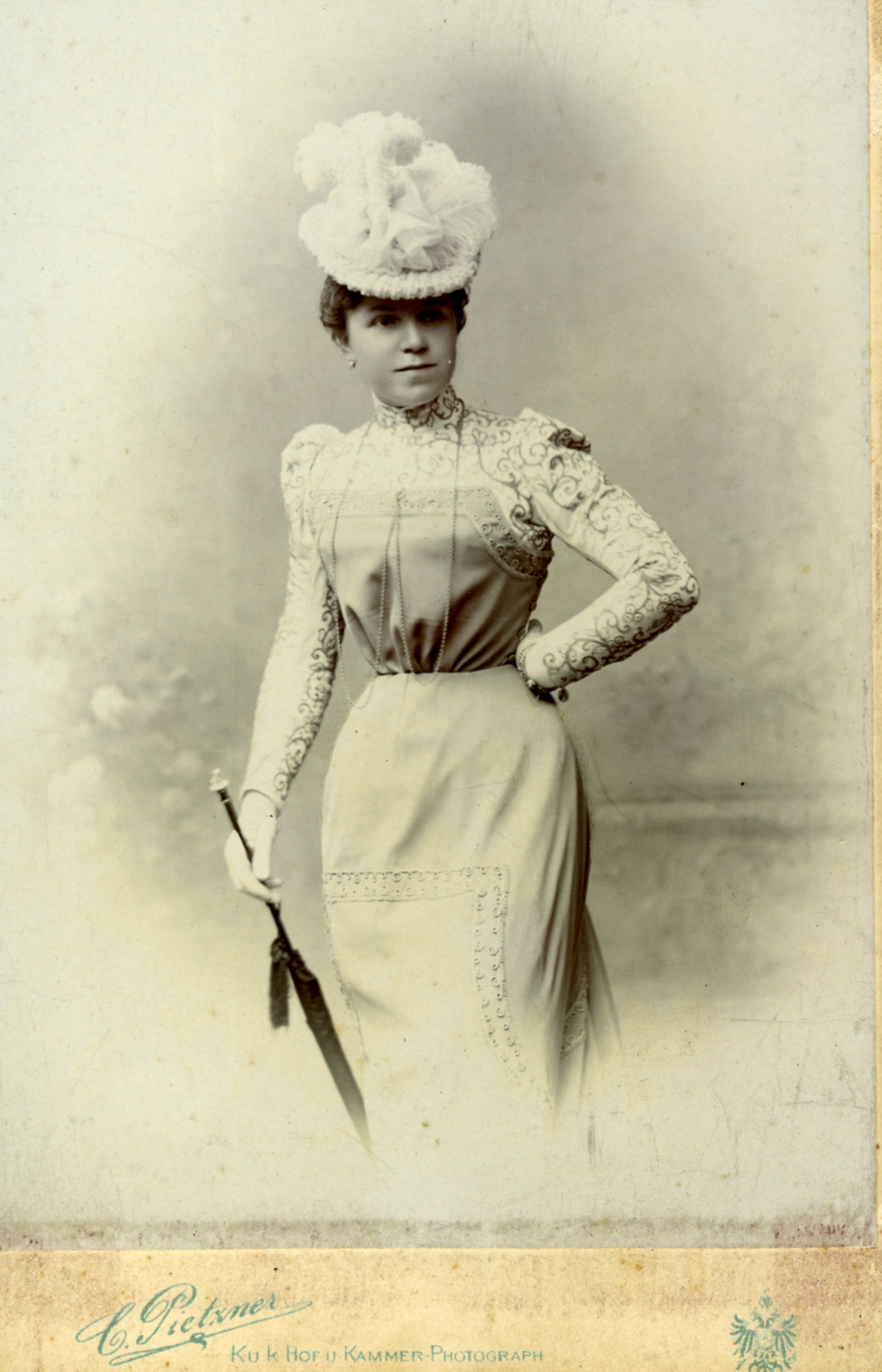 Theresia Rohn, nee Czokally, photograph